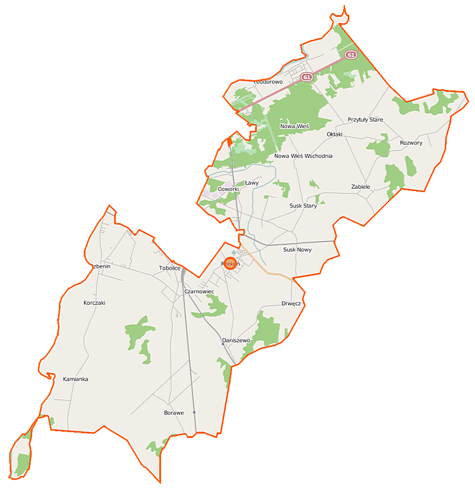 Map of Gmina Rzekuń, Poland This map of Rzekuń (gmina) was created from OpenStreetMap project data, collected by the community. This map may be incomplete, and may contain errors. Don't rely solely on it for navigation. Border coordinates53.147221.4827←↕→21.779452.9635